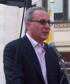 Peter Schiff speaking